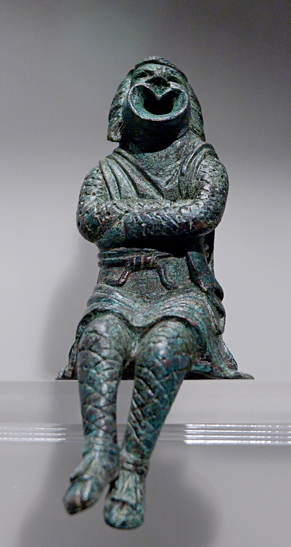 Actor playing a slave and wearing a comic mask. Bronze statuette, early 3rd century CE. From the Piazza Madonna dei Monti, 1973.